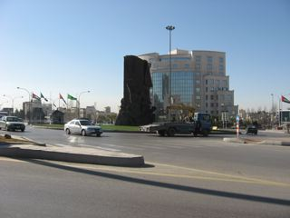 7th Circle, Amman, Jordan